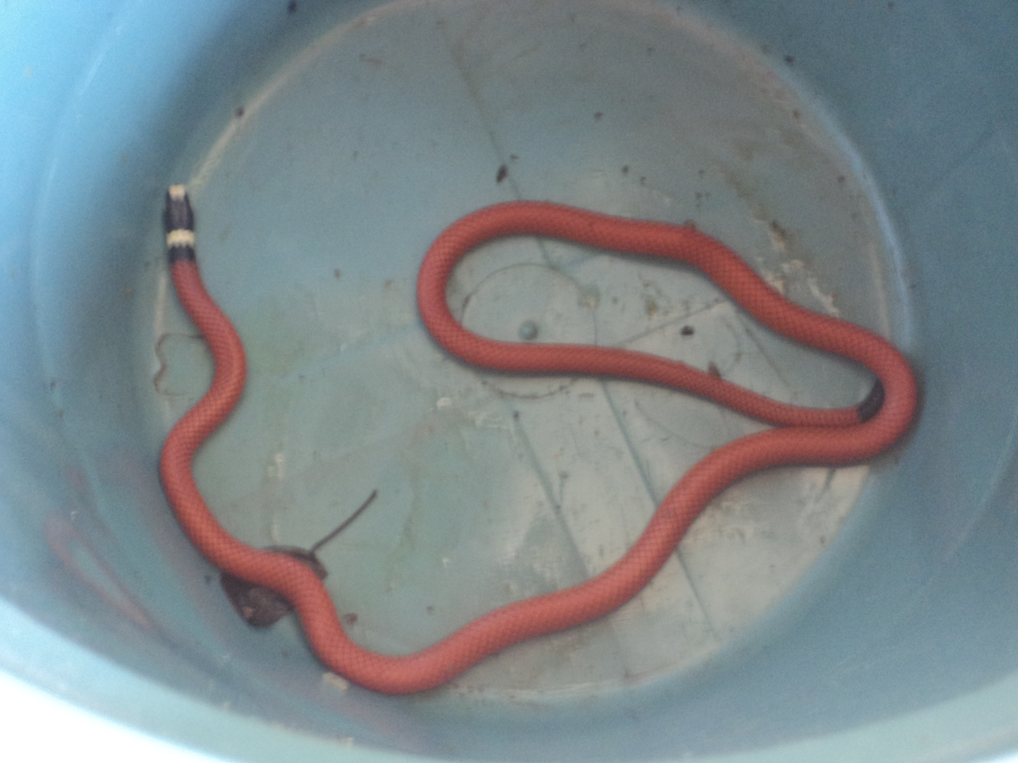 An "apostolepis assimilis", brasilian snake. Not dangerous to humans or domestic animals.